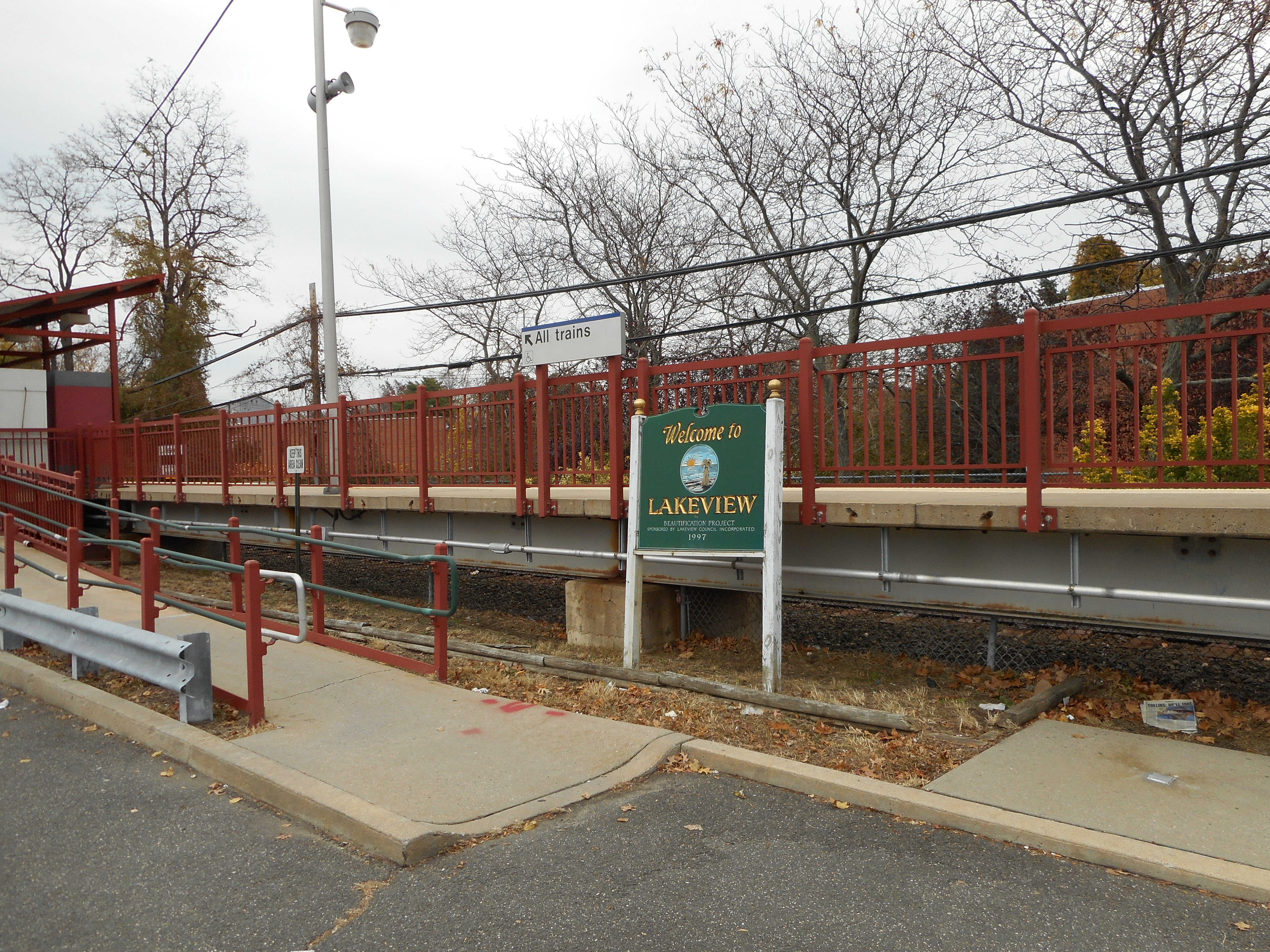 Local welcome sign at the Lakeview (LIRR Station) at the edge of the Woodfield Road parking lot in Lakeview, New York. This sign is also near a staircase to the platform and the Woodfield Road grade crossing.